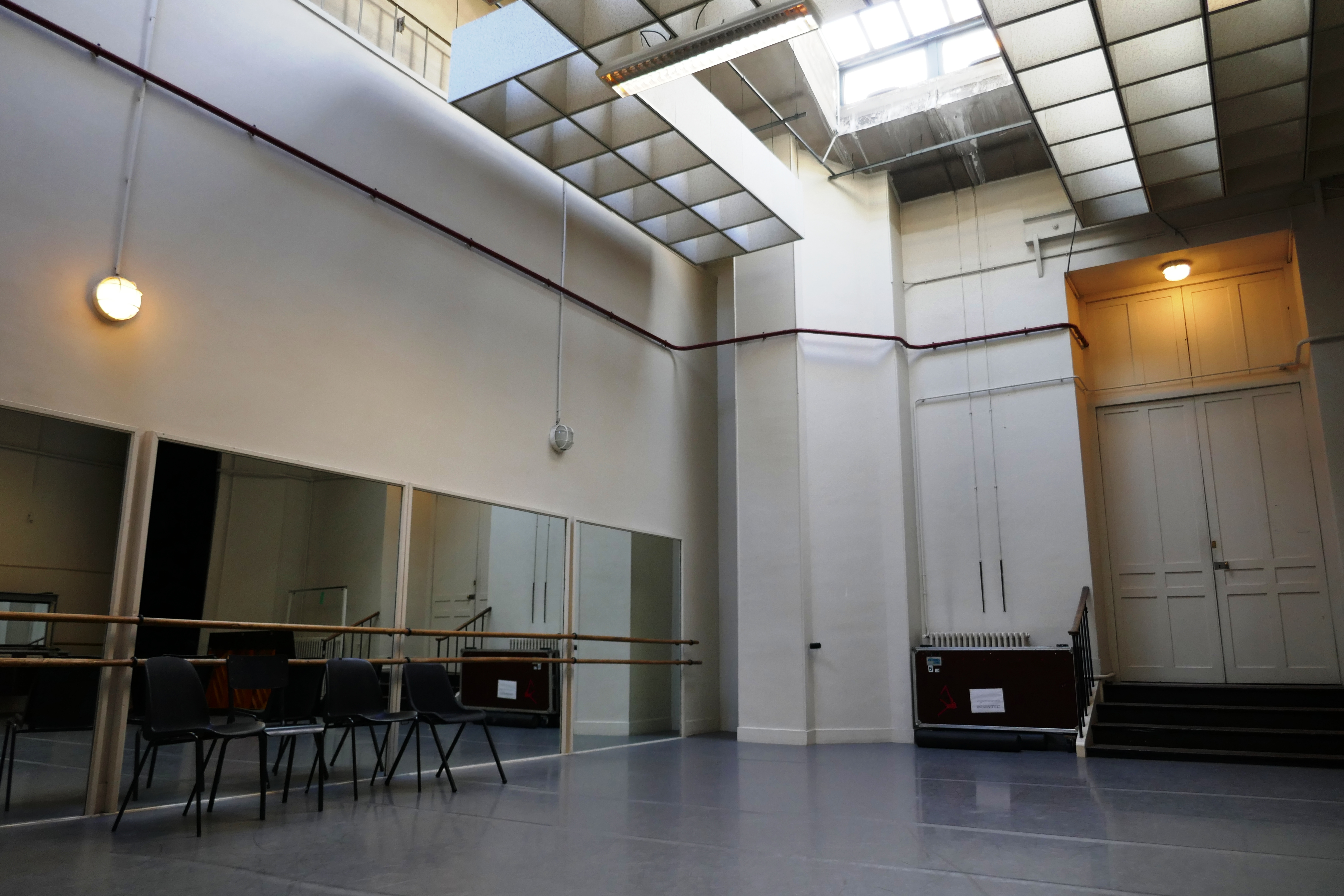 Opéra Garnier - Classroom A